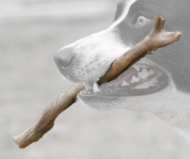 picture i made of a stick, based on Image:Dog retrieving stick.jpg, released under the same license.